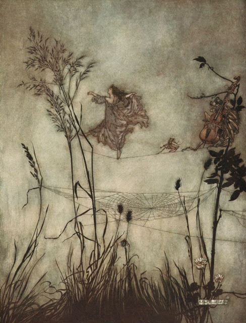 From Peter Pan in Kensington Gardens, illustrated by Arthur Rackham.